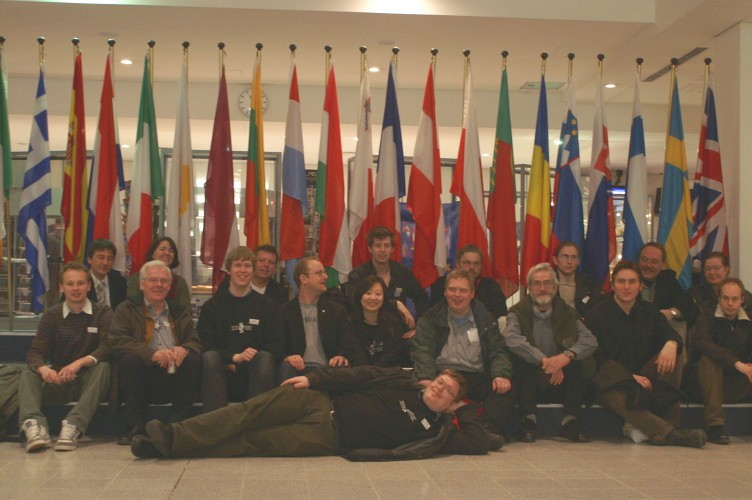 IT-Pol at EPP